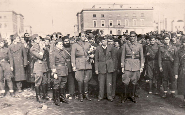 Communist partisans in Tirana, 28 November 1944.